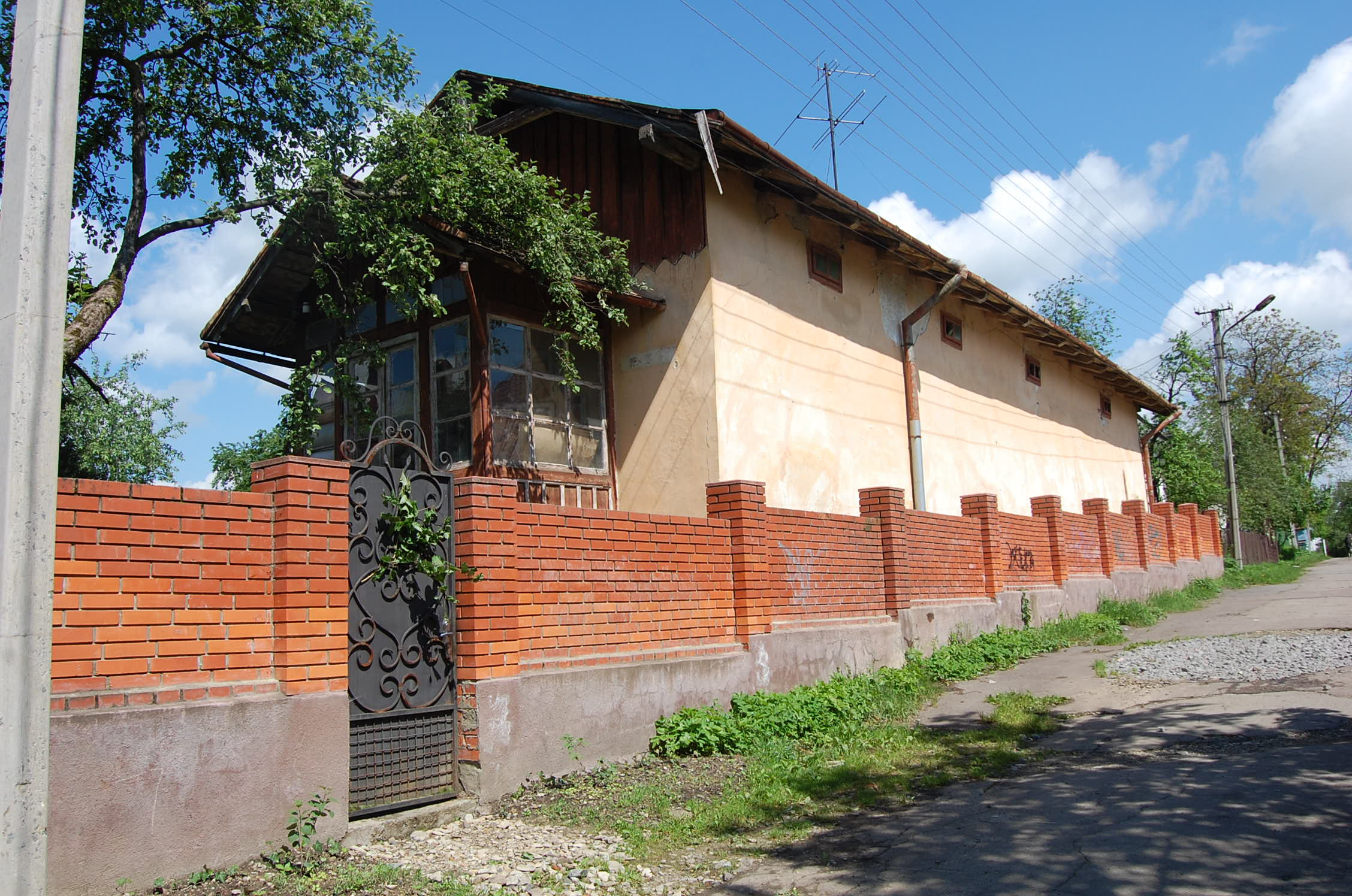 Josephine Szelińska`s roommate, girlfriend of Bruno Schulz